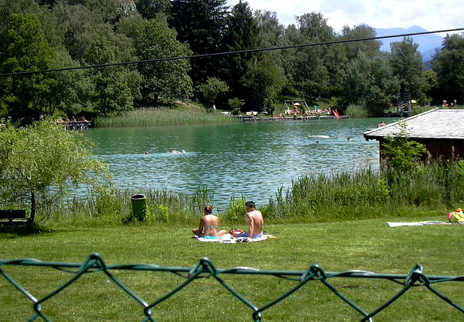 Lanser See South Shore